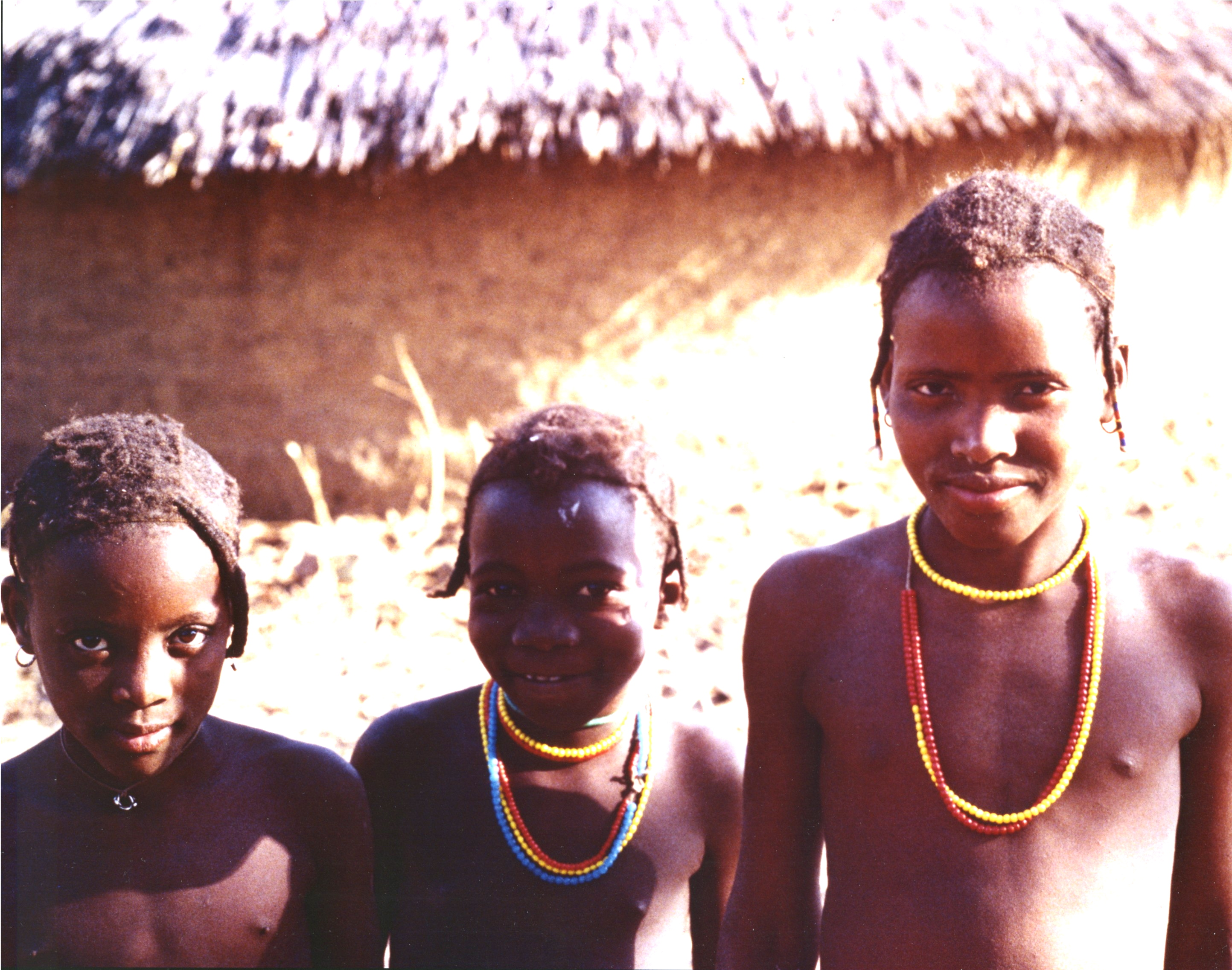 Bedik girls, Iwol, southeast Senegal (West Africa)